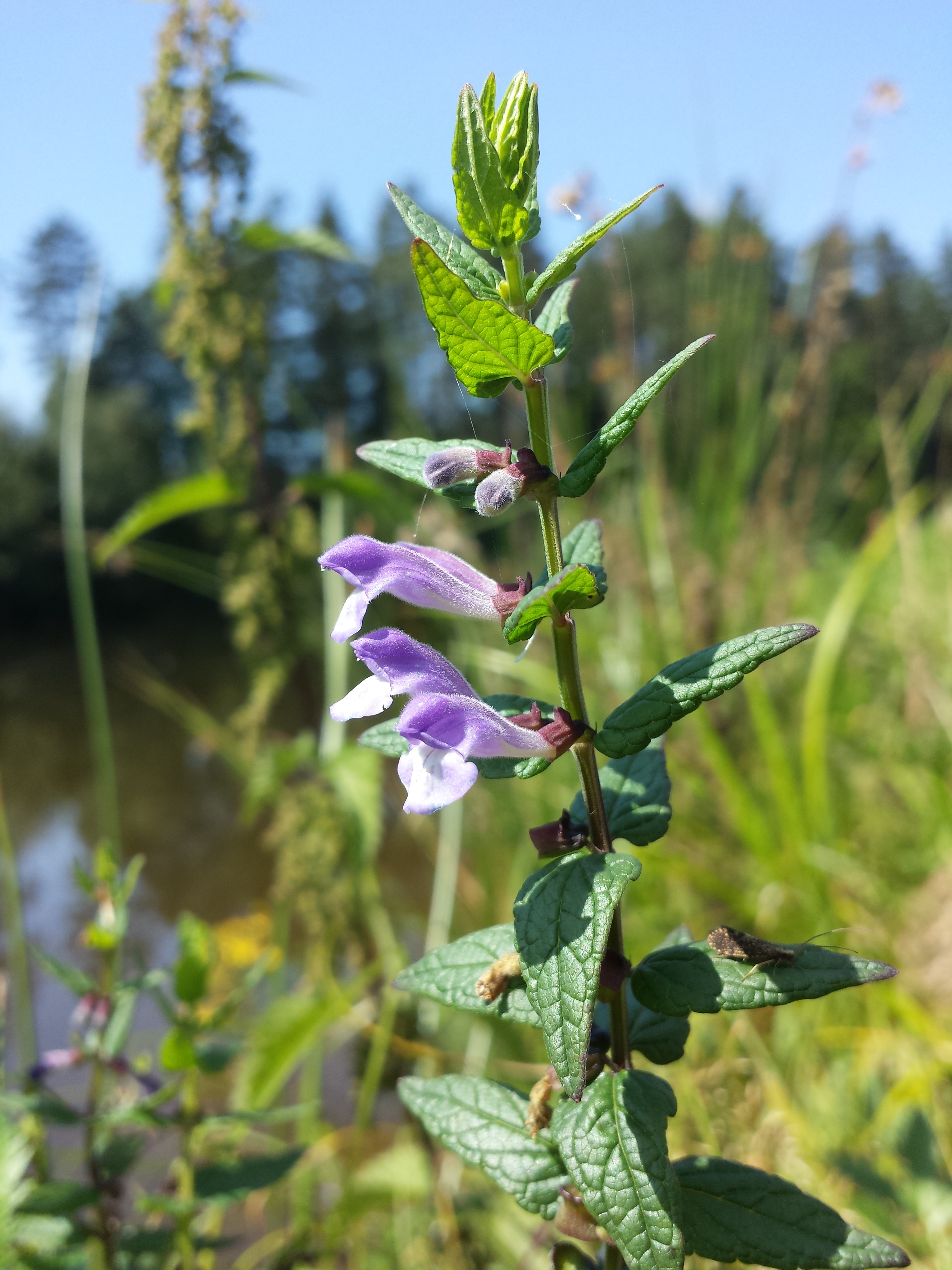 Inflorescence Taxonym: Scutellaria galericulata ss Fischer et al. EfÖLS 2008 ISBN 978-3-85474-187-9 Location: Žumberk u Nových Hradů, Jihočeský kraj, Czech Republic - ca. 540 m a.s.l. Habitat: shore of a pond